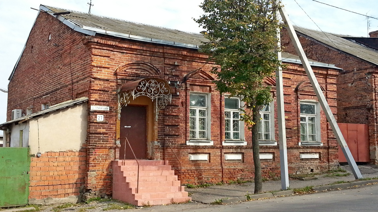 Беларуская (тарашкевіца): Будынкі. г. Віцебск This is a photo of Belarusian heritage monument. Reference number: 213Г000017 ( WLM)